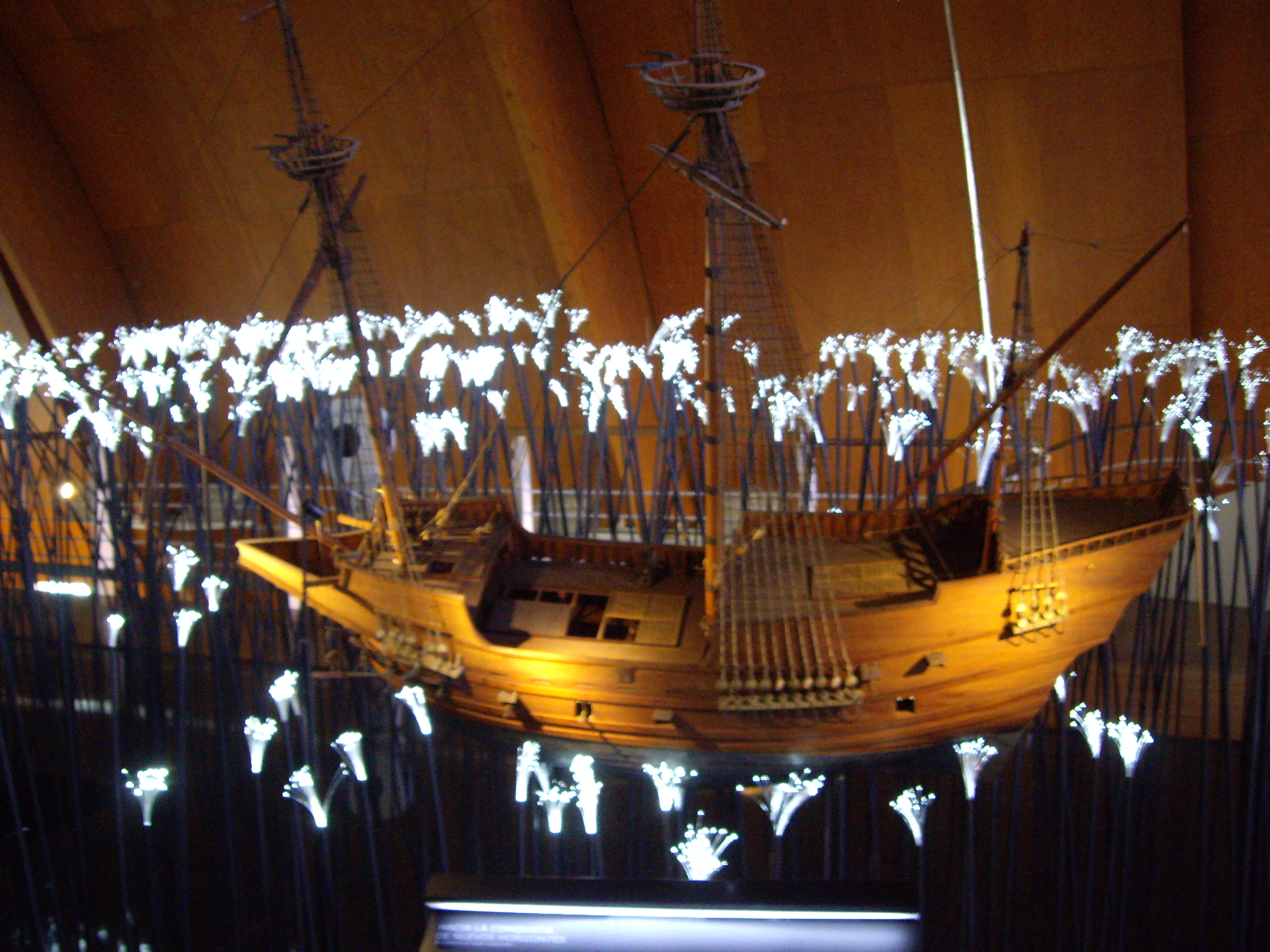 Maqueta de la Nao San Pedro en el Pabellón de la Navegación de Sevilla